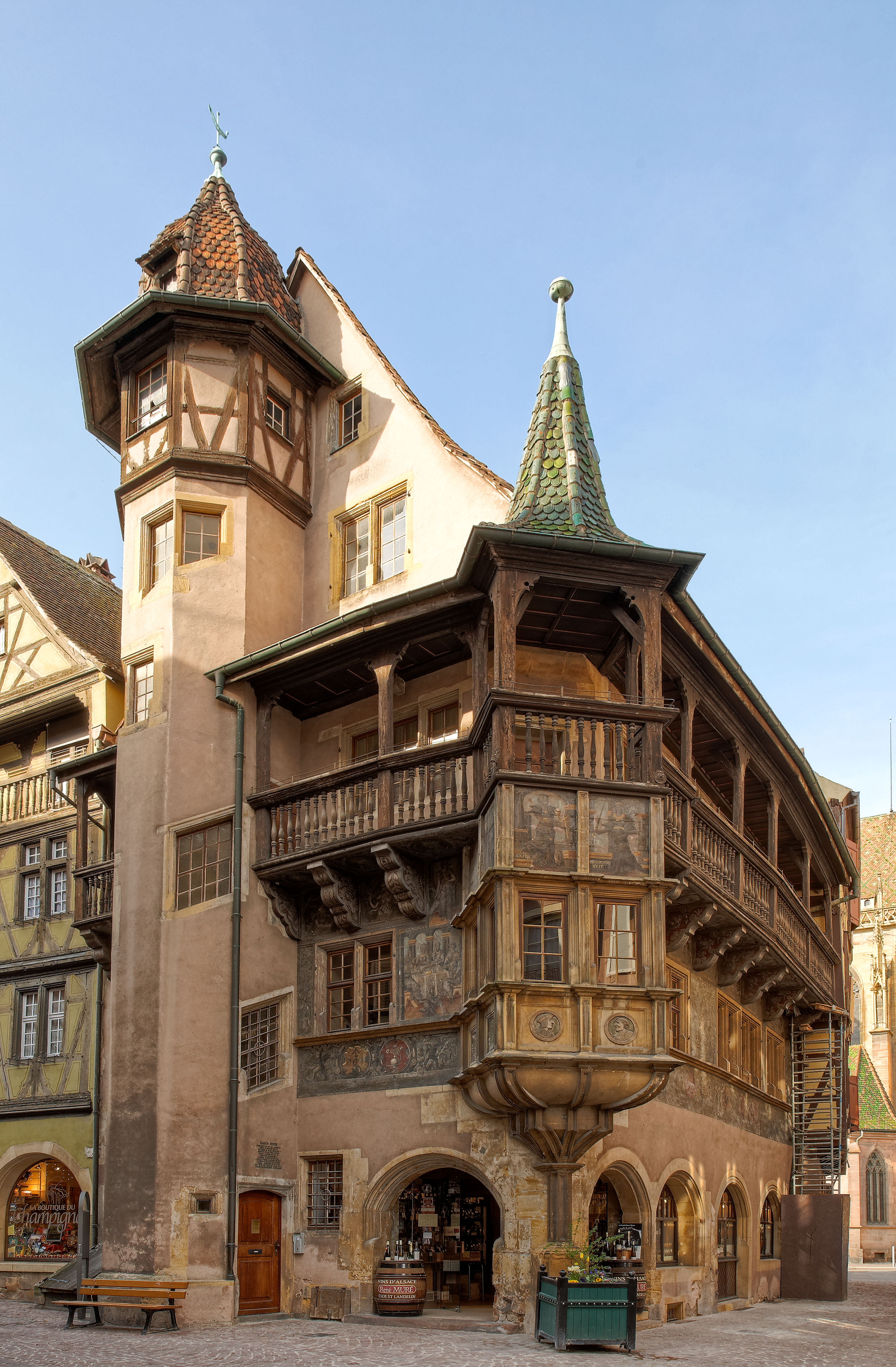 The Pfister House, built in 1537, at the corner of the Marchands' street and the Mercière street in Colmar, Alsace, France. In the right background, the St Martin's Church.